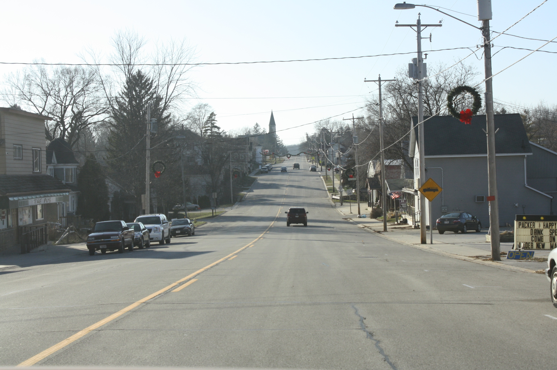 Looking west in downtown Cascade, Wisconsin on Wisconsin Highway 28.